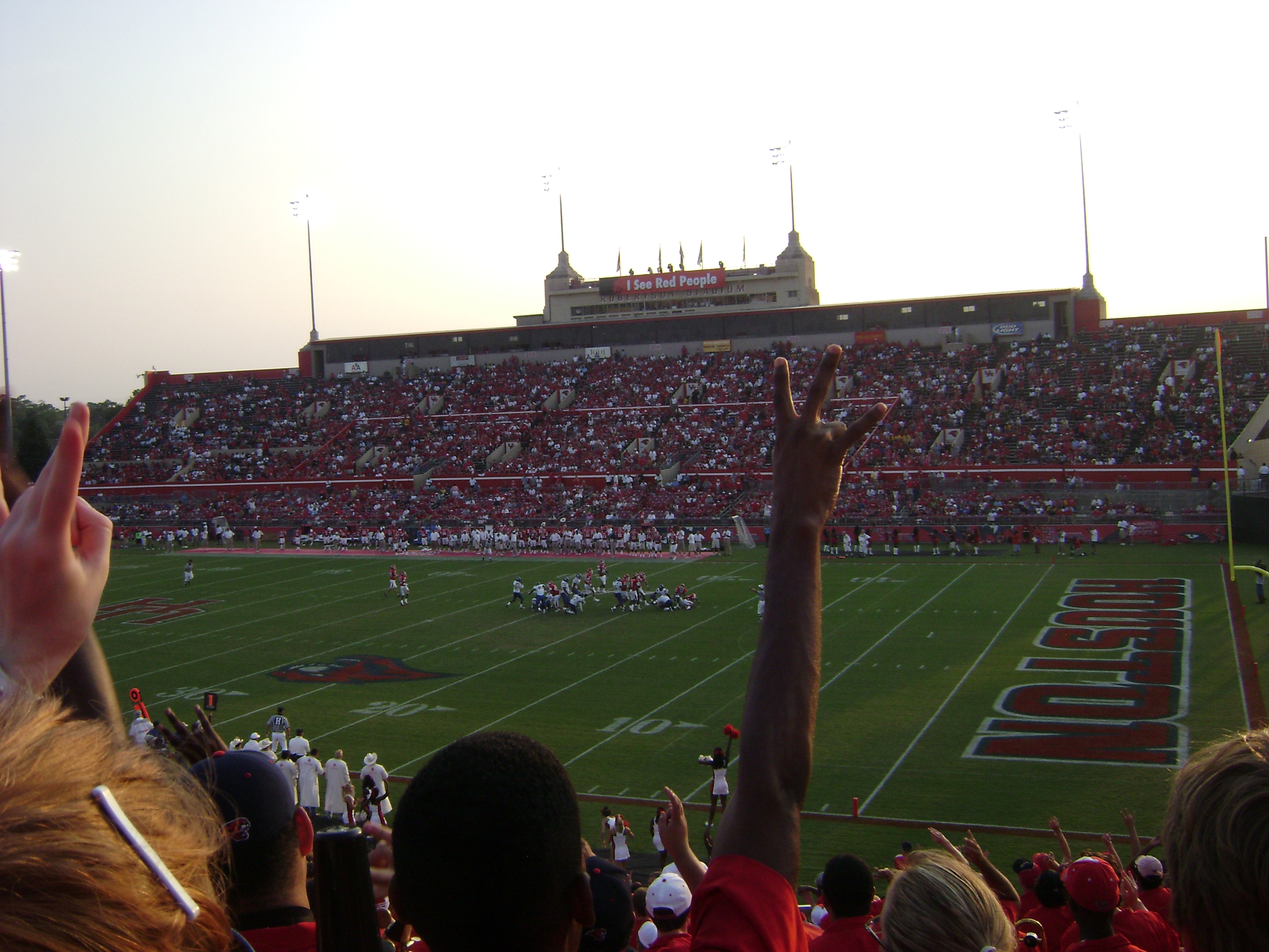 The 2008 Houston Cougars football team vs the 2008 Southern Jaguars football team at Robertson Stadium in Houston, Texas on the campus of the University of Houston